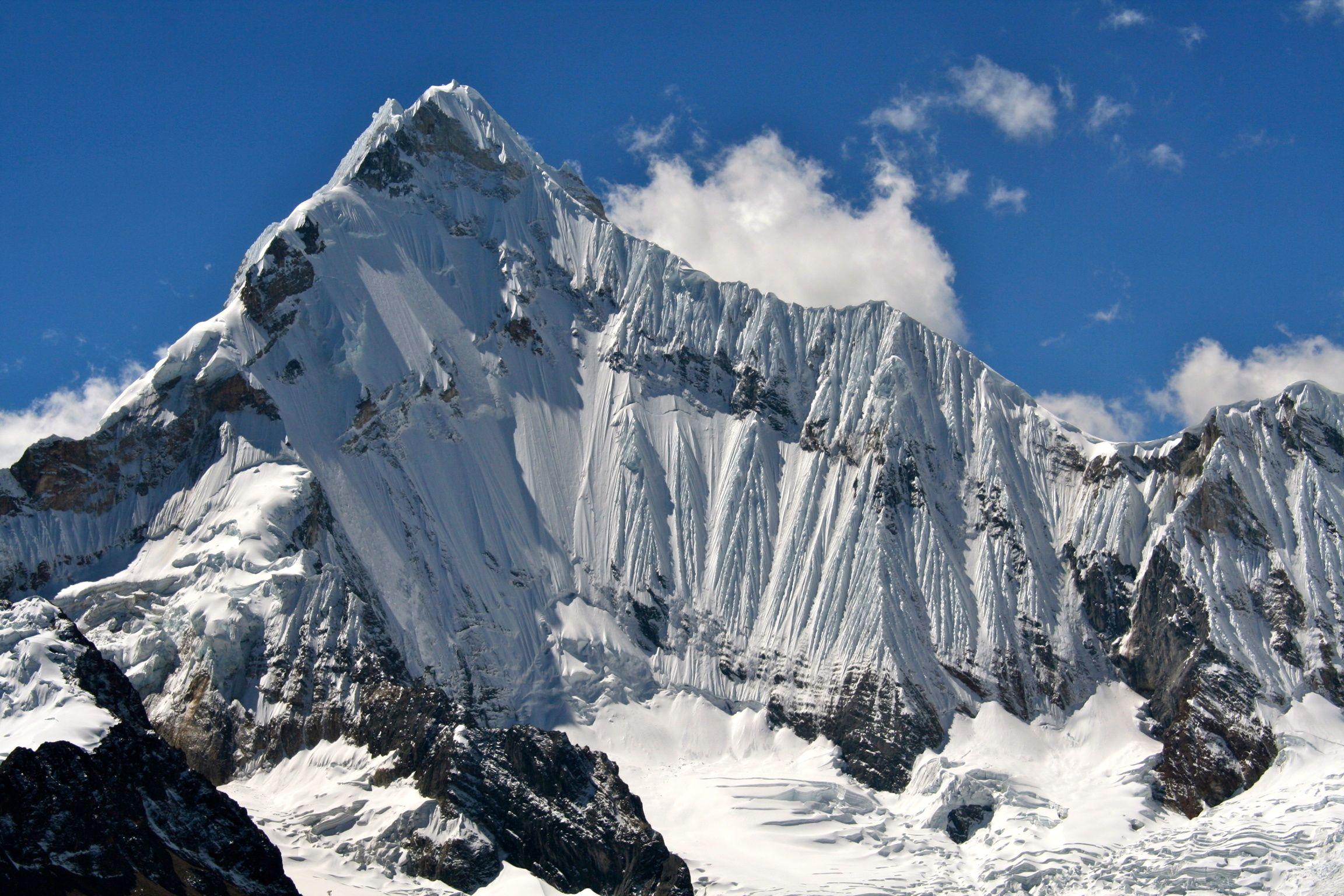 The south face of Yerupaja, Cordillera Huayhuash